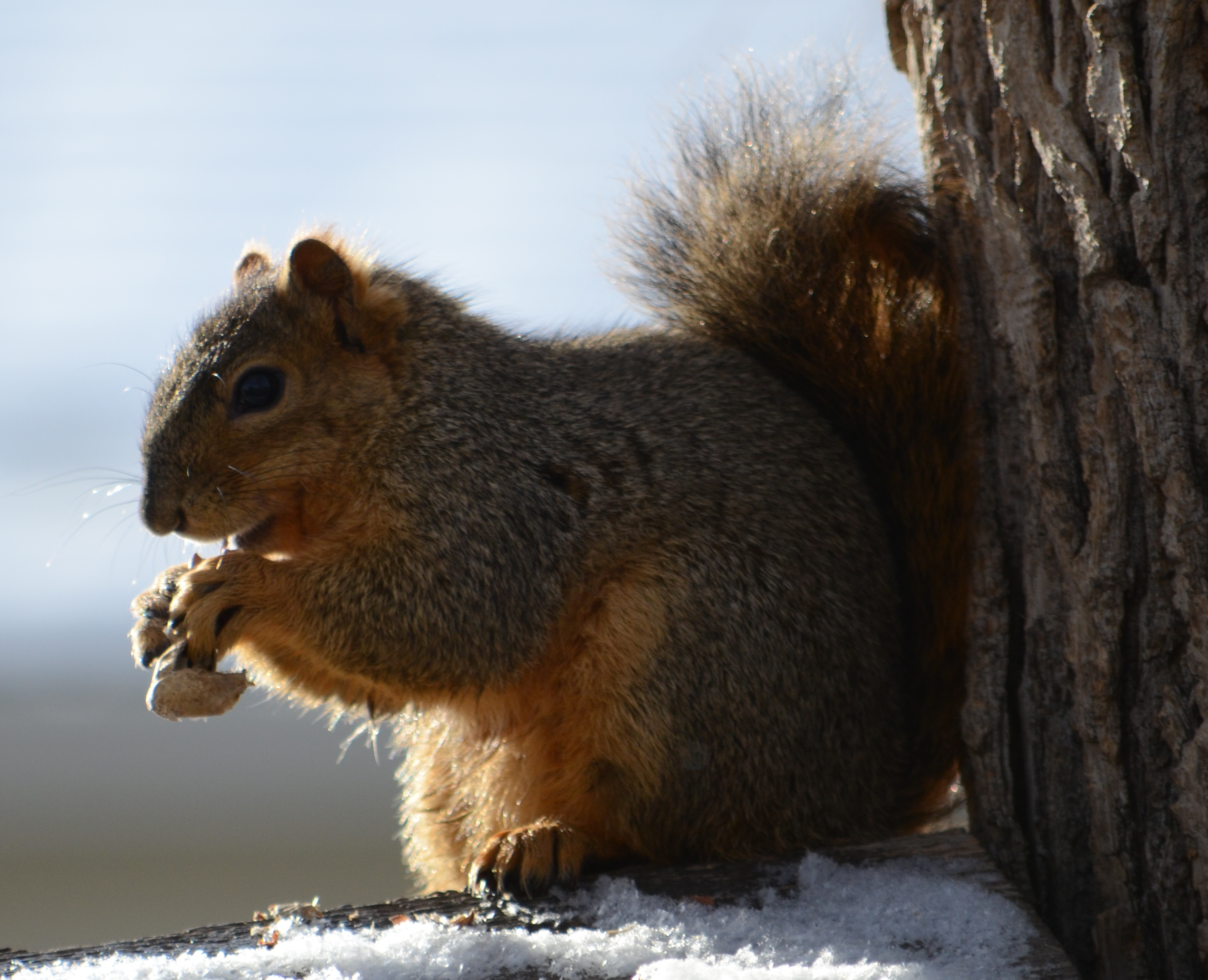 Squirrel eating a peanut